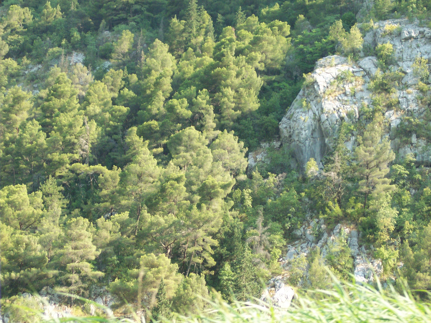 Omiš in Croatia. Trees are mostly Pinus halepensis.